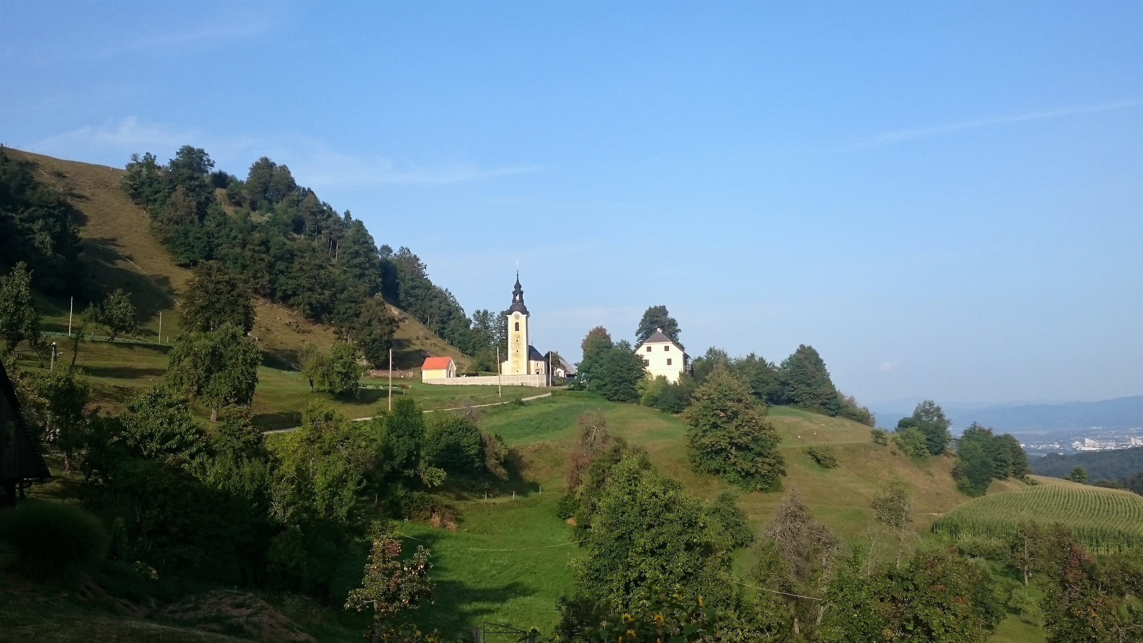 St. Katherine church, Topol pri Medvodah (Katarina nad Ljubljano)